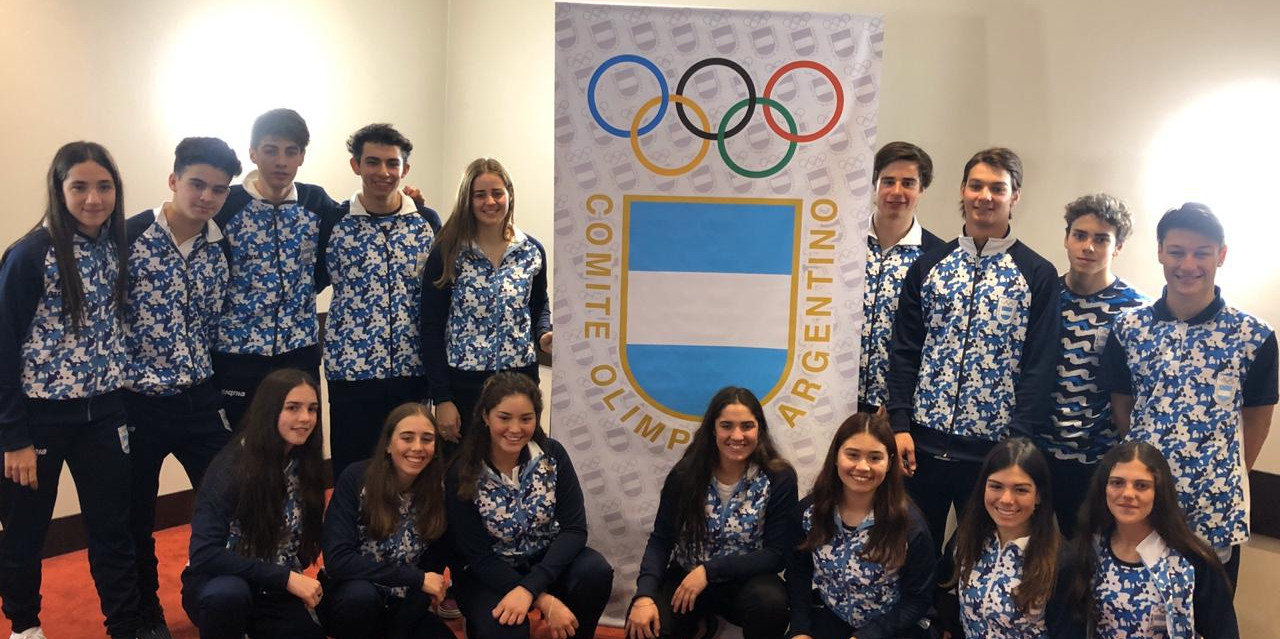 Athletes of the Argentine Delegation of the 2020 Winter Youth Olympics.